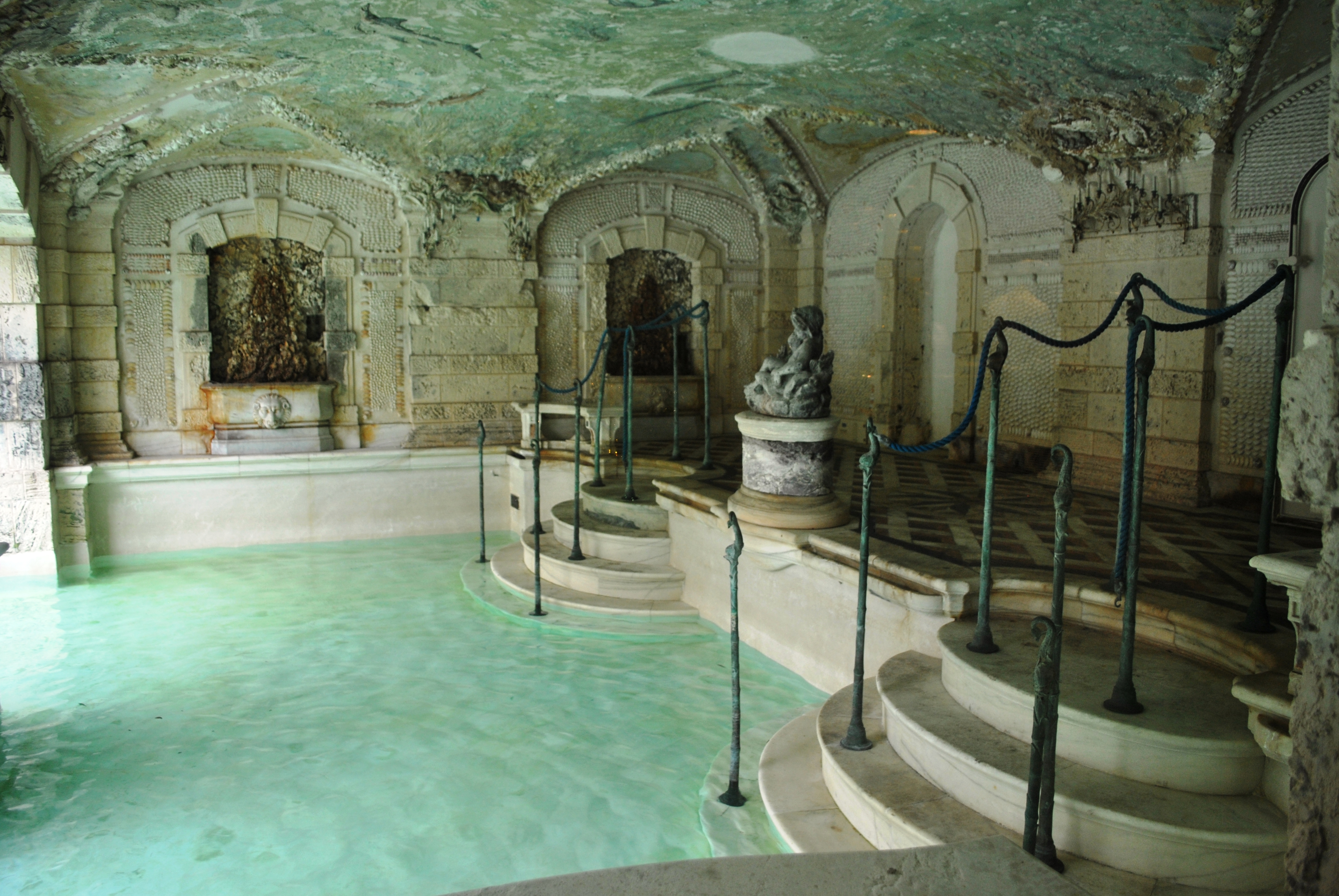 Image originally published in Queer Places: Retracing the Steps of LGBTQ people around the World Authored by Elisa Rolle